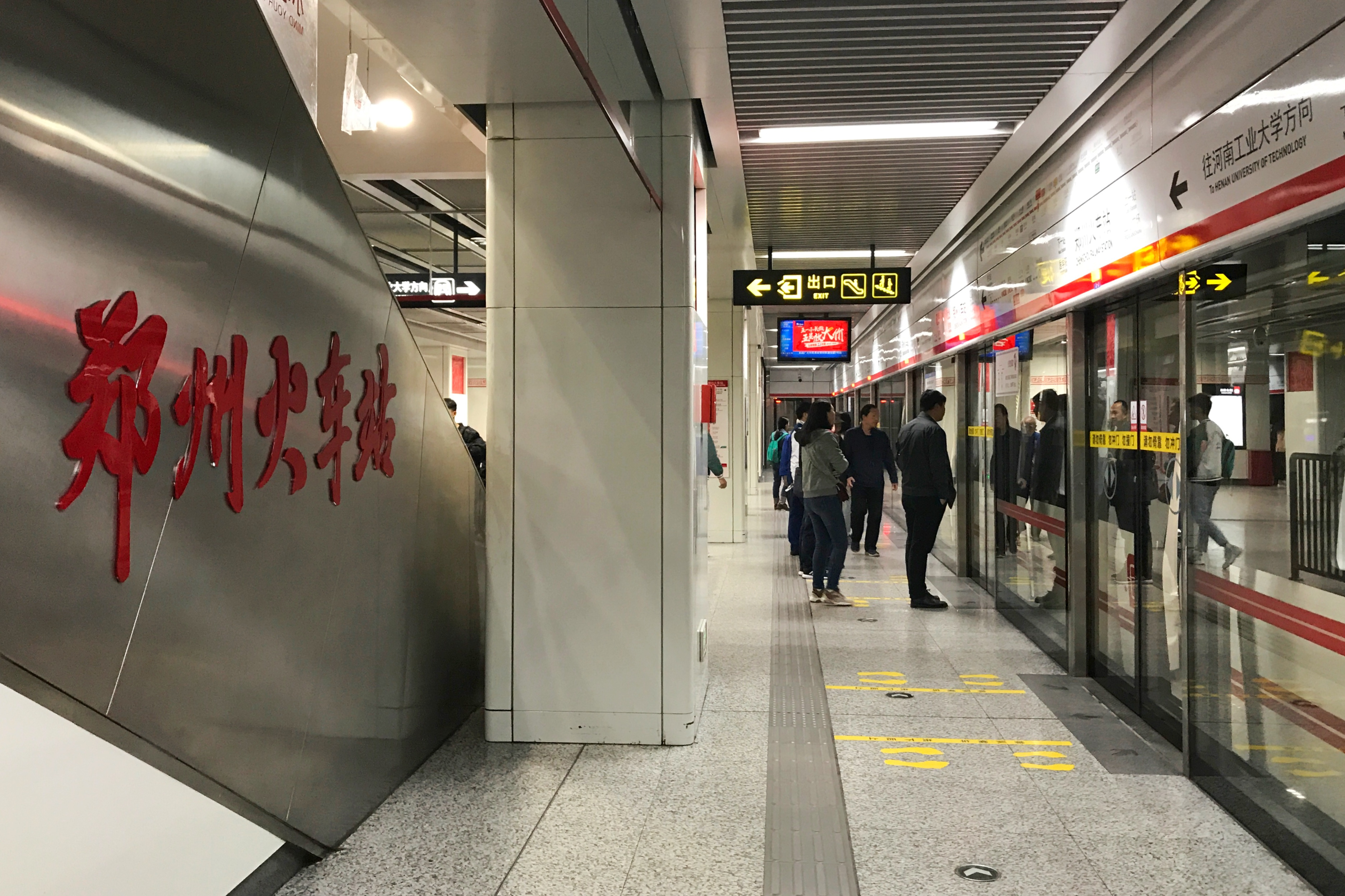 Platform of Zhengzhou Railway Station (Metro)